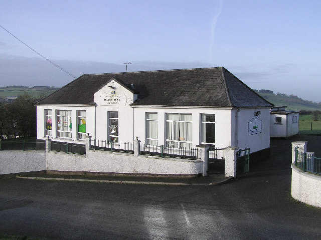 St. Matthew's Primary School, Garvaghy. It is located beside Garvaghy RC Church.